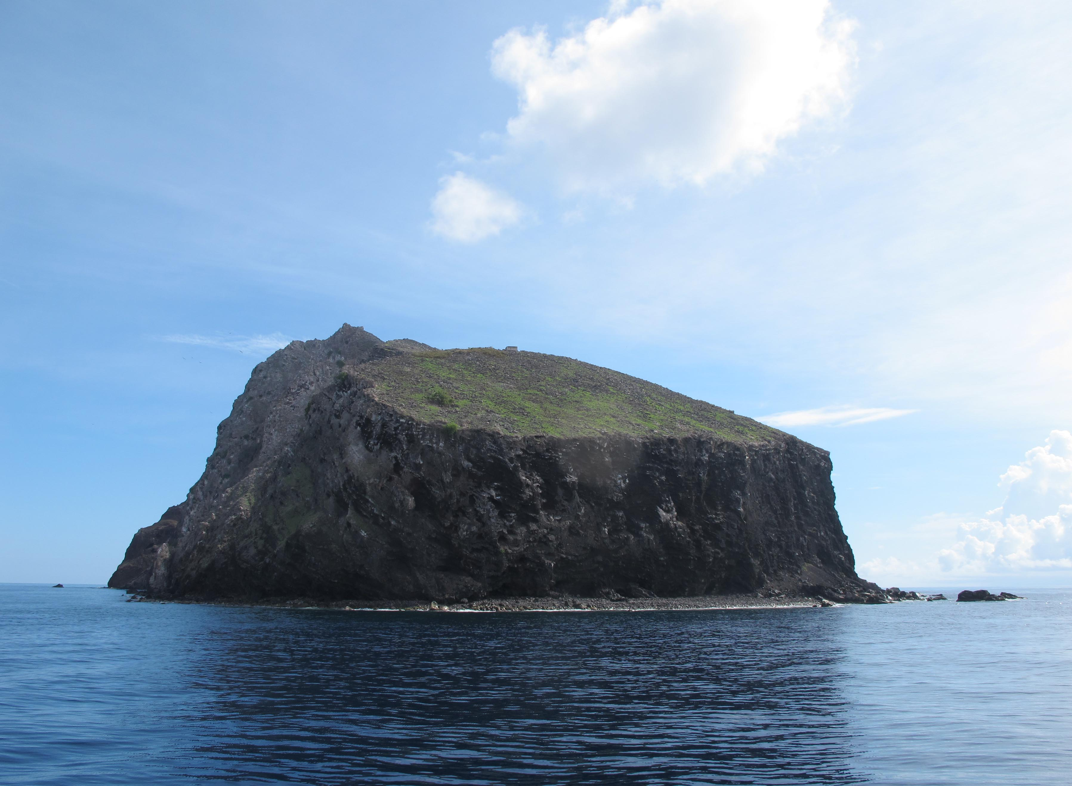 A view of the small island of Redonda from the southeast in 2012